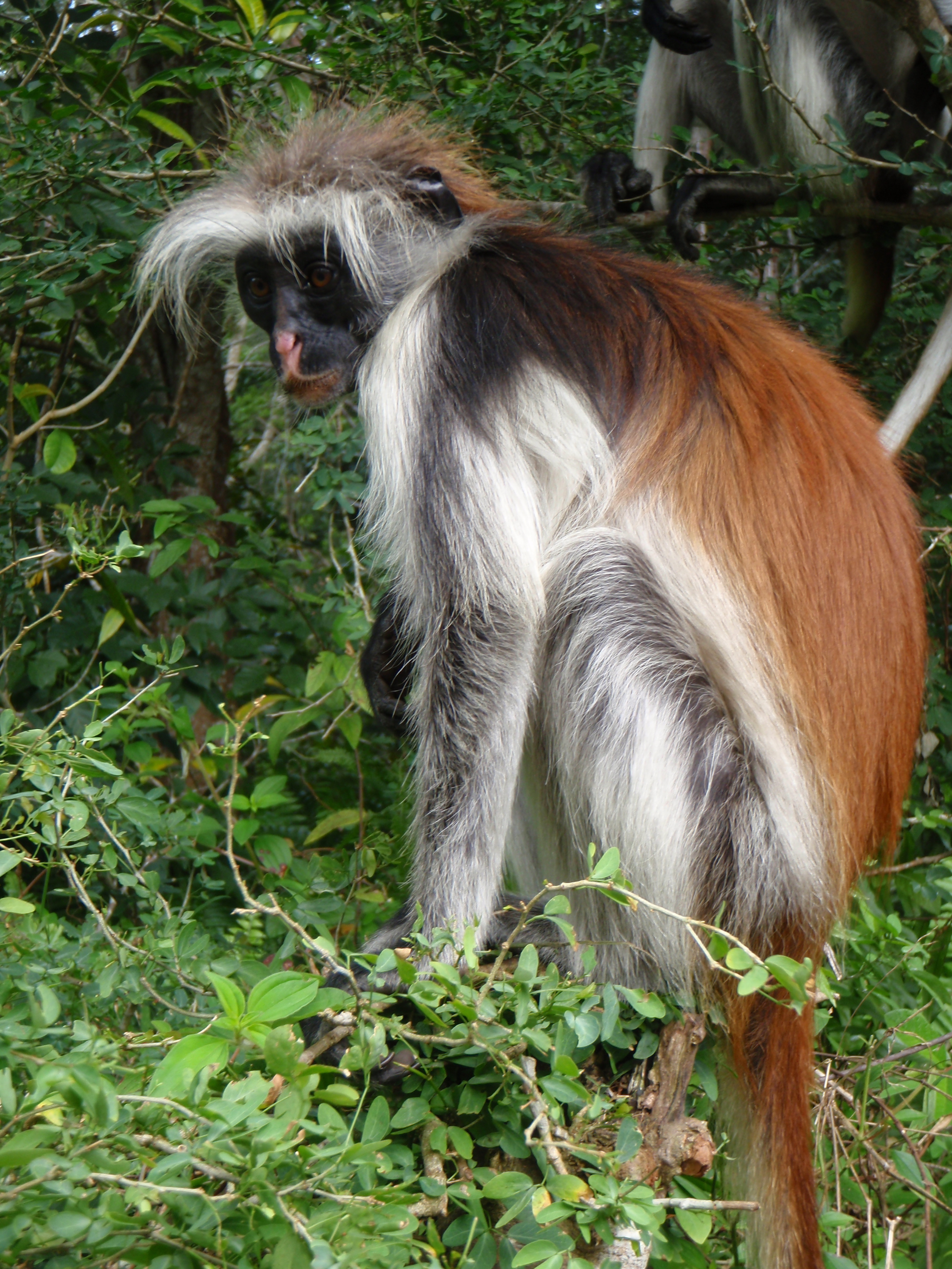 Red Colobus monkey in Jozani forest. Endemic to Zanzibar.